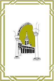 Damascus is the gate of history